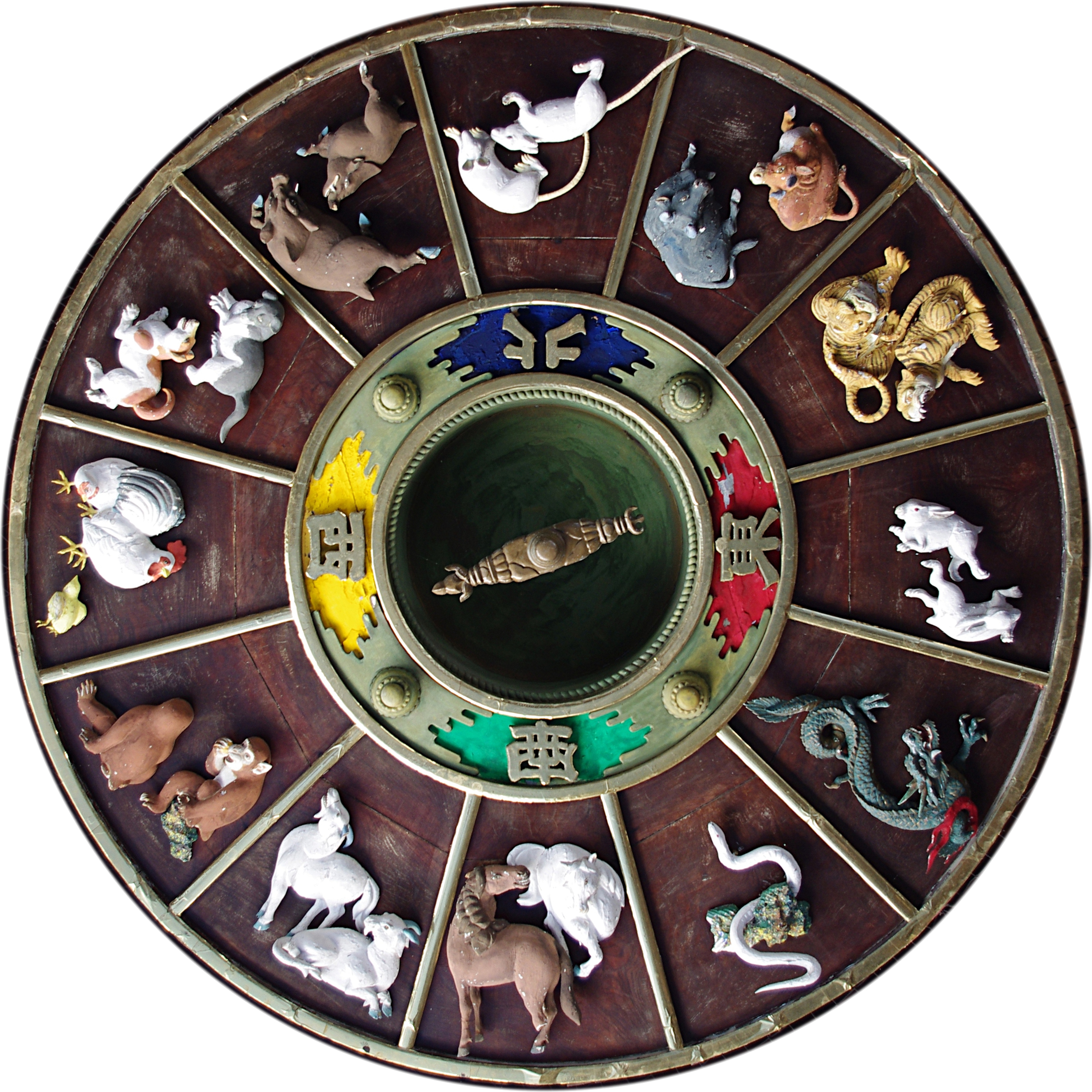 The carvings with Chinese Zodiac on the ceiling of the gate to Kushida Shrine in Fukuoka (mirror image, to have animals in the correct order)